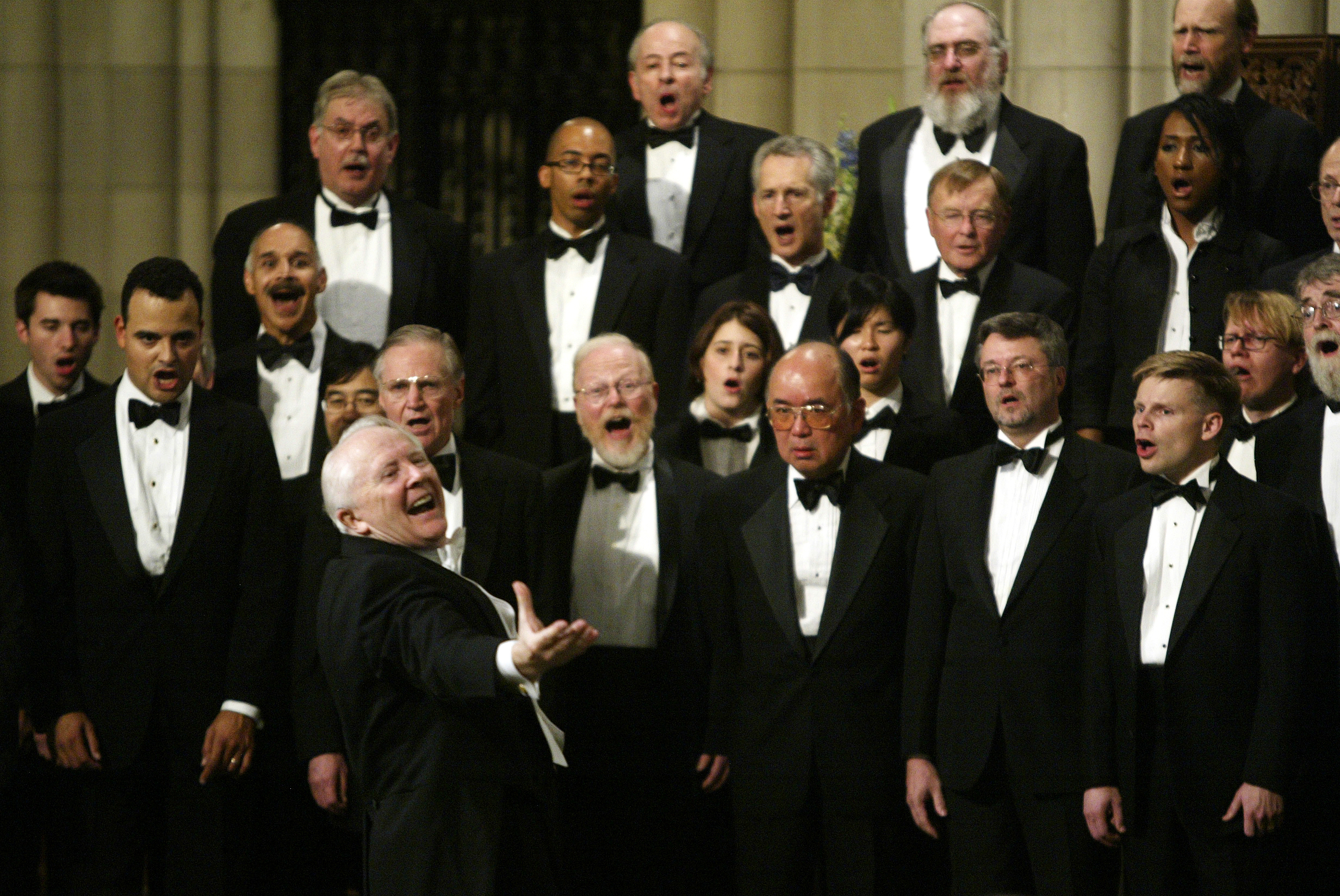 Denis Mickiewicz conducting a concert of the Alumni of the Yale Russian Chorus at Duke University in October 2005. This photo was part of a batch of publicity photos commissioned by the YRC to cover the Duke 2005 concert